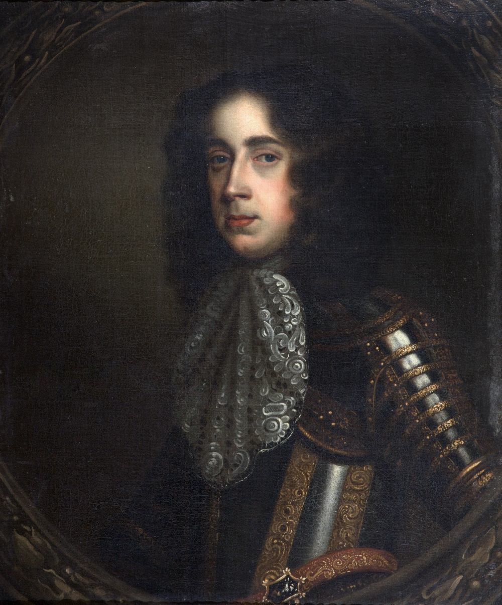 Sir Francis Wyndham (c.1654–1715), MP for Trent, Somerset, portrait c.1690 by unknown artist, oil on canvas, 76.5 x 64 cm. Collection: Somerset County Museums Service, accession number: 176/2007/2. Provenance: purchased from the estate of Mrs S. Rawlins, 2007.